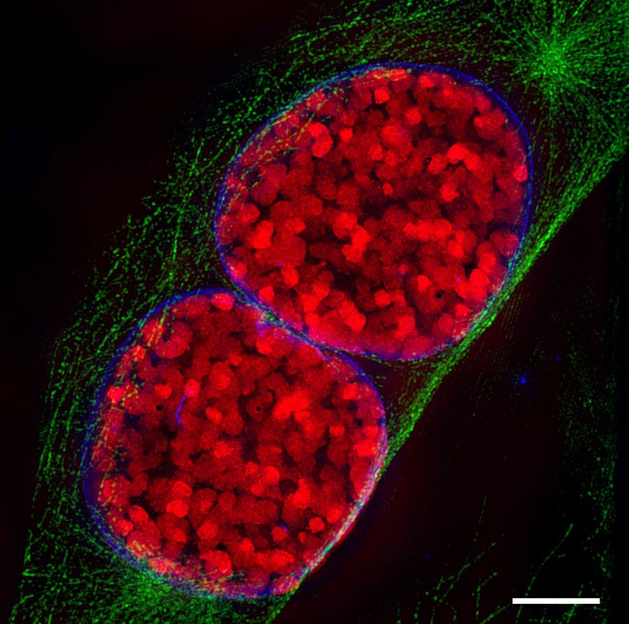 Light-optical section through two mouse cell nuclei in prophase, recorded with 3D Structured Illumination Microscopy (3D-SIM-microscopy). condensed chromosomes are red, the nuclear envelope blue and microtubuli, which belong to the cytoskeleton, are green. Scale bar is 5 µm. For further information see: Schermelleh L, Carlton PM, Haase S, Shao L, Winoto L, Kner P, Burke B, Cardoso MC, Agard DA, Gustafsson MG, Leonhardt H, Sedat JW (June 2008). "Subdiffraction multicolor imaging of the nuclear periphery with 3D structured illumination microscopy". Science (journal) 320 (5881): 1332–6. PMID 18535242.